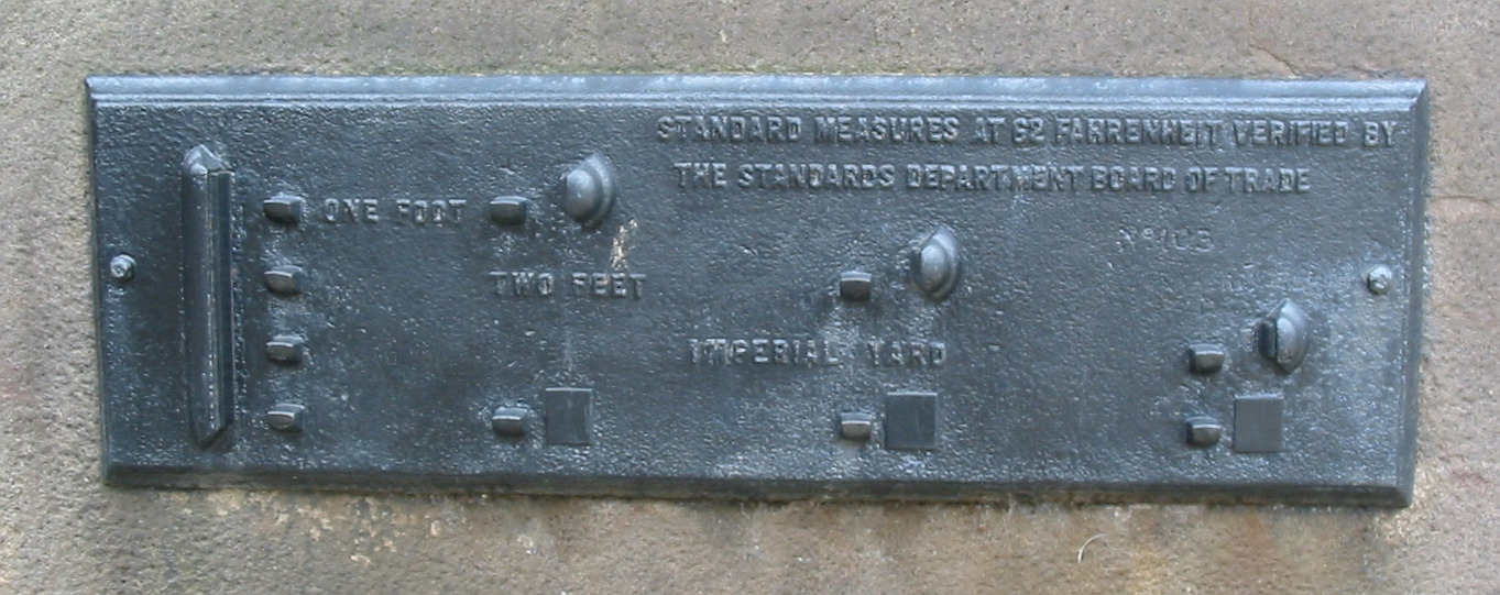 Liverpool